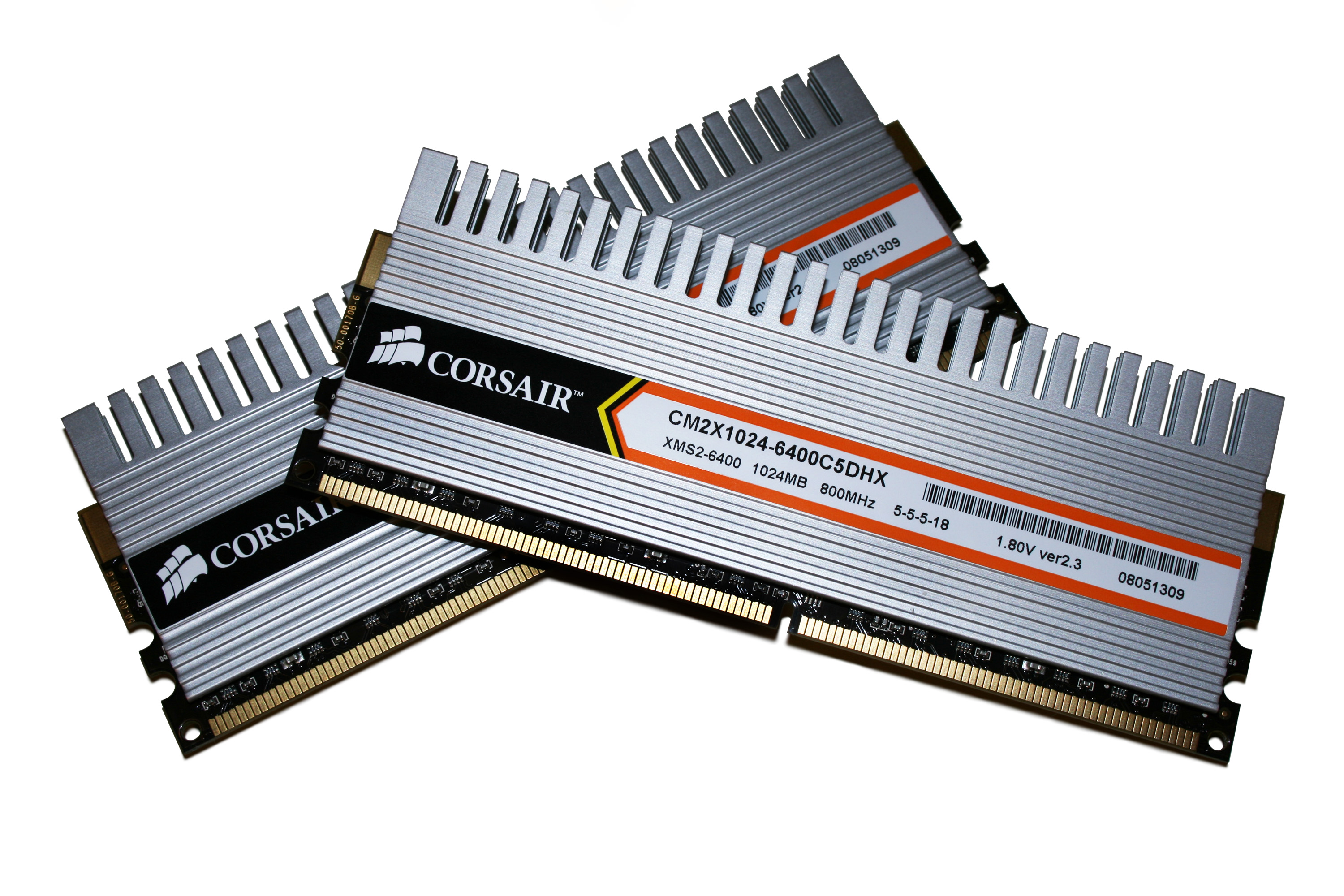 An edited photo of Corsair DDR2 SDRAM "CM2X1024-6400C5DHX" with integrated heat sinks.